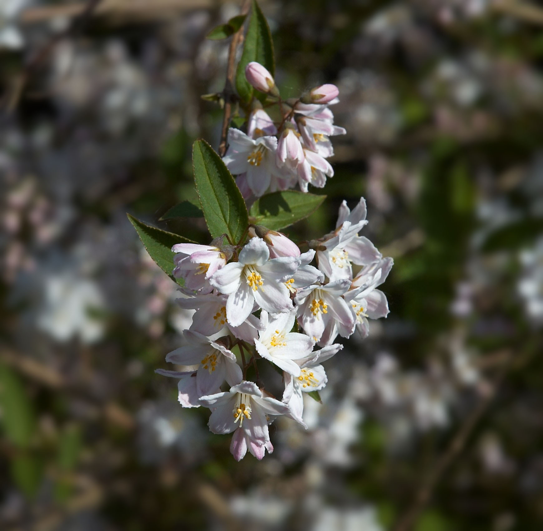 Slender Deutzia